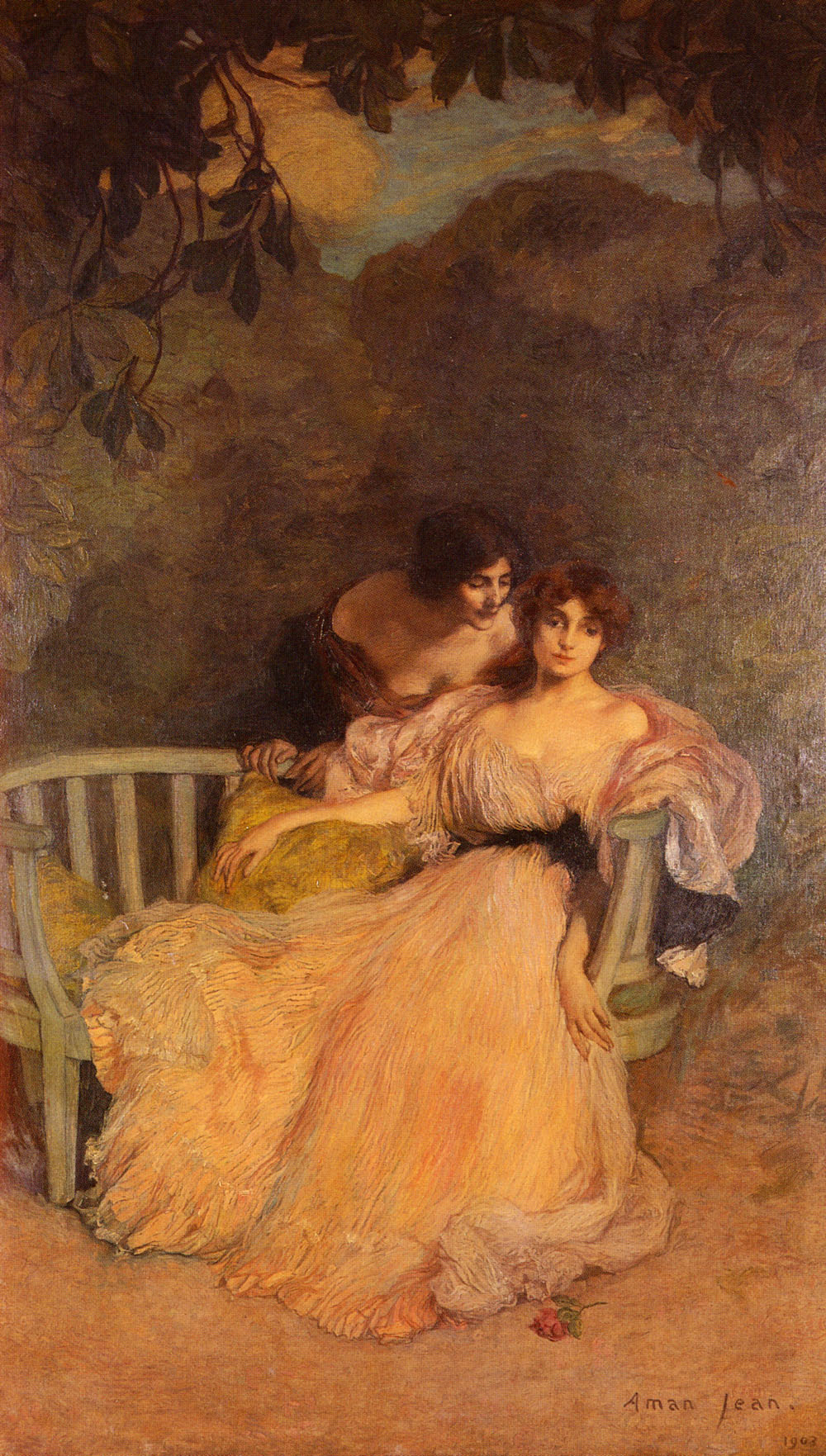 Confidence